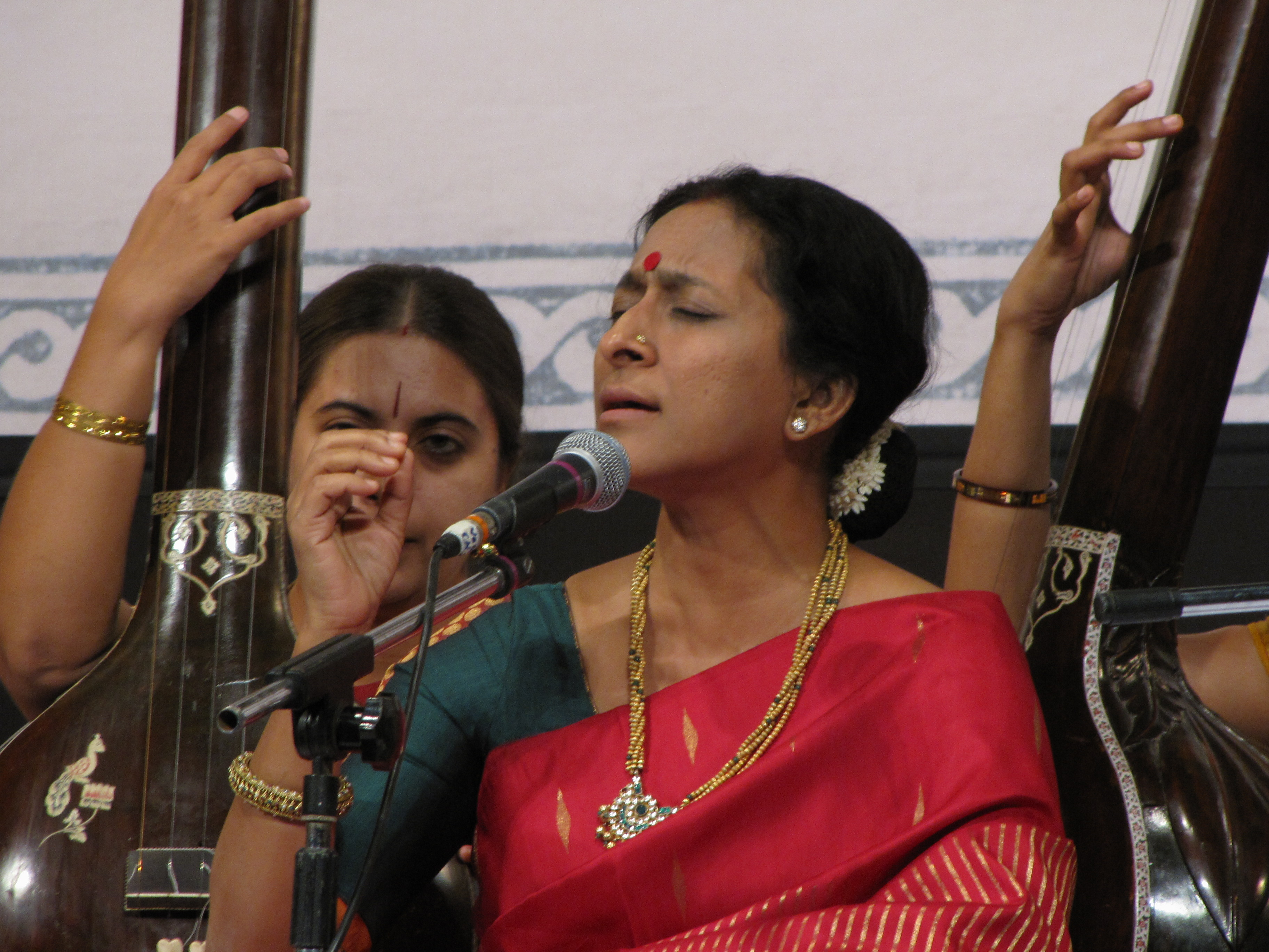 Bombay Jayashri performing at Chowdiah Memorial Hall on the occasion of ITC Sangeet Sammelan 2010